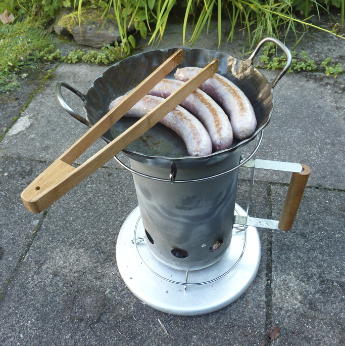 Charcoal chimney starter, used as a wood burning cooking stove or hobo stove